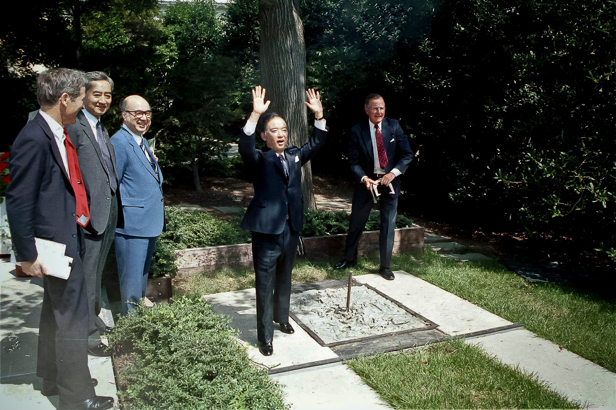 President Bush and Prime Minister Toshiki Kaifu of Japan pitch horseshoes on the grounds of the White House, Washington, DC.